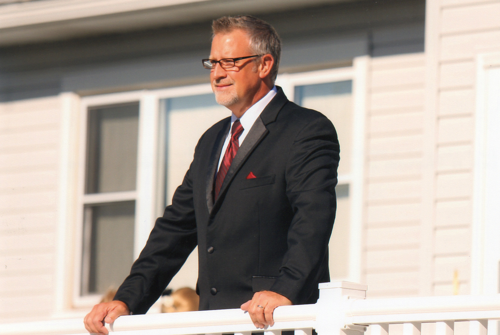 Doron Jensen Other information No